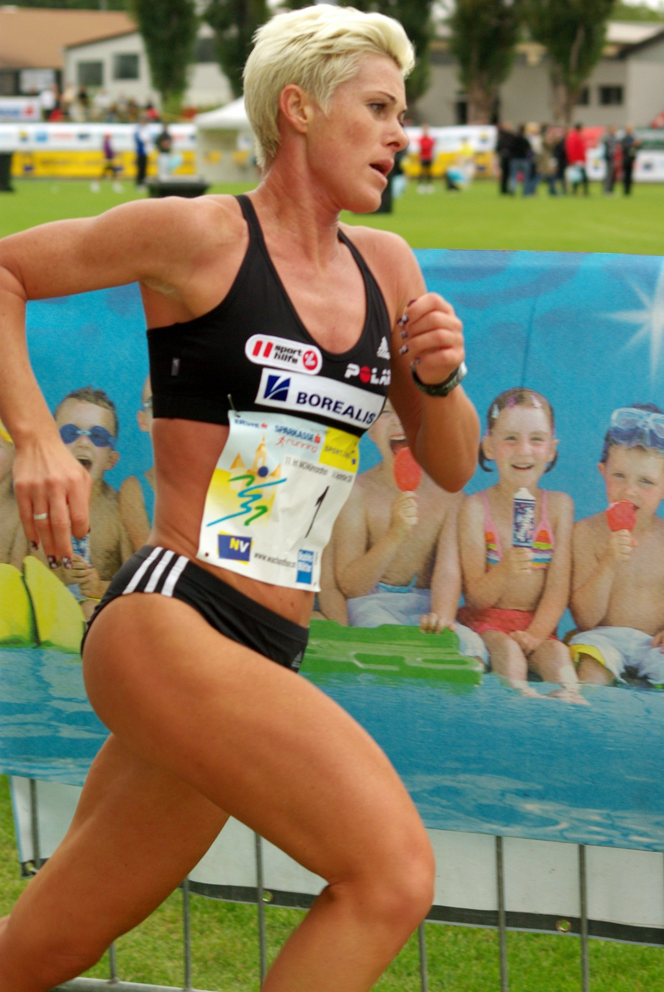 Austrian marathon runner Eva-Maria Gradwohl in the half marathon race of the WACHAUmarathon 2008 shortly before the finish in the stadium of Krems.